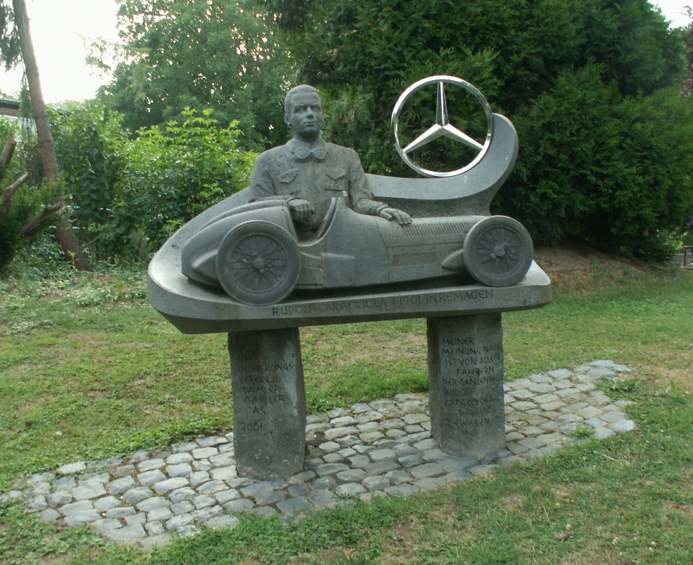 Caracciola Monument in Remagen, Germany